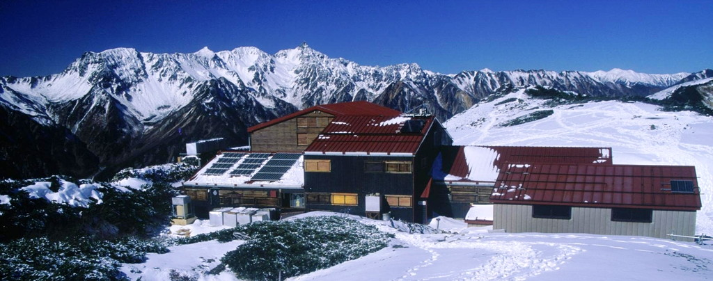 Chōgatake Hut and Mount Yari in the closed season , Mountain hut, in Mount Chō (Chōgatake), Hida Mountains, Nagano prefecture, Japan.